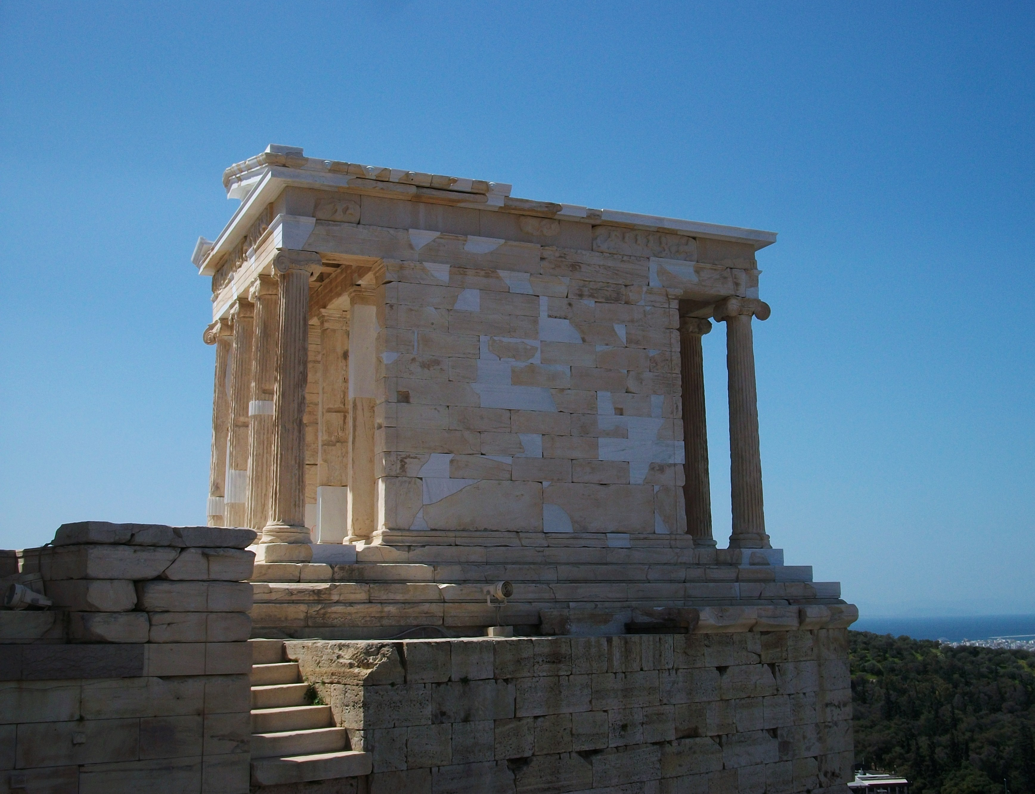 Temple of Athena Nike.